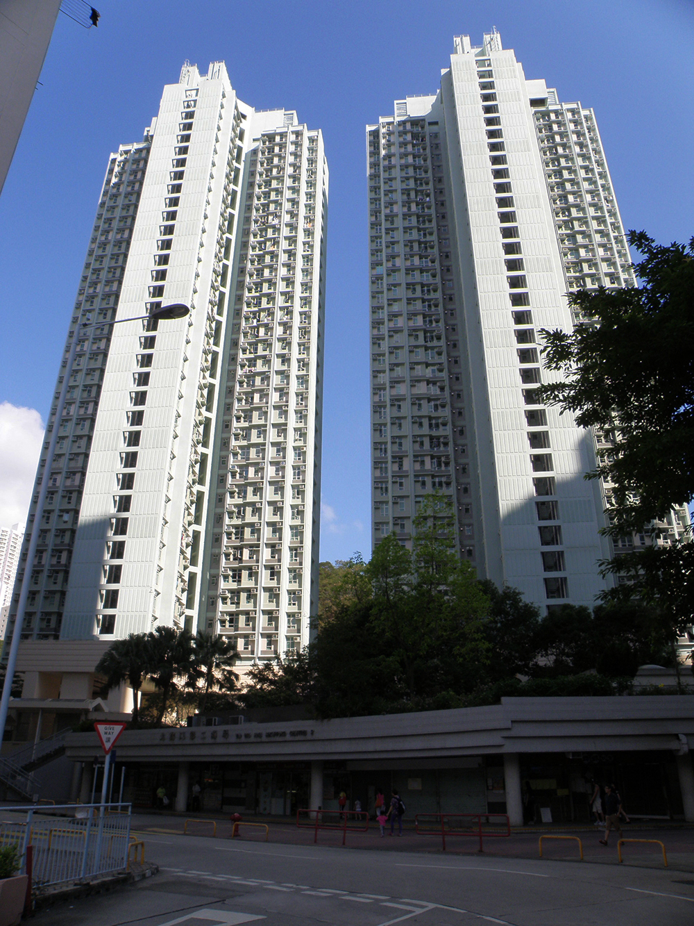 Kwai Yung Court in Tai Wo Hau, Hong Kong.